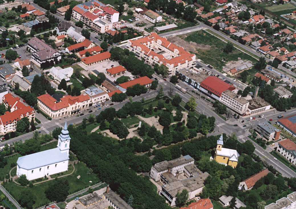 Kossuth Square, Balmazújváros - Hungary - Europe